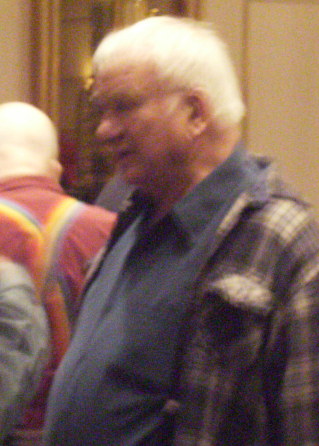 Walt Brown discussing the issues with, soon to be Socialist Party USA Vice Presidential nominee, Stewart Alexander after the "Meet the Candidates" forum at the Socialist Party USA 2007 National Convention in St. Louis, October 19, 2007.